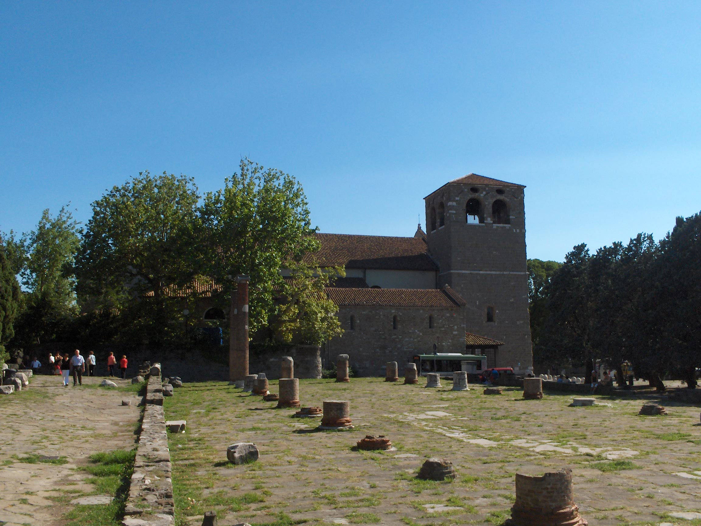 Roman forum and San Giusto cathedral, Colle di San Giusto, Trieste